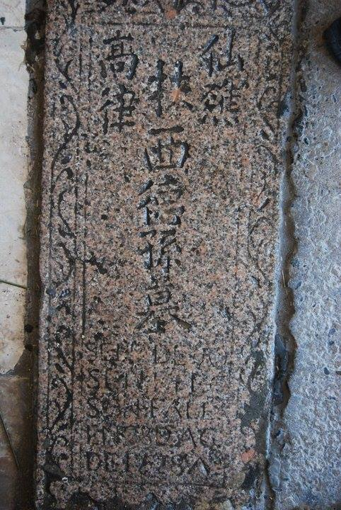 The tomb of Jose Tecson. The Chinese characters read, in center: 扶西德孫墓 (Hokkien: Hú Si Ték Sūn Bù / Jose Tecson's Tomb), upper right: 仙燋 (Sen Kiao / Immortal's Torch; Guangzhou), and upper left: 高津 (Kao Tsin / High Ford)